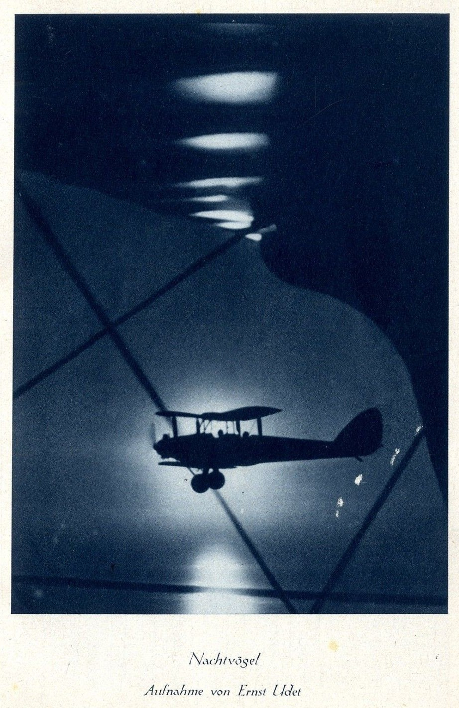 Nightbirds, by German aviator Ernst Udet c. 1930